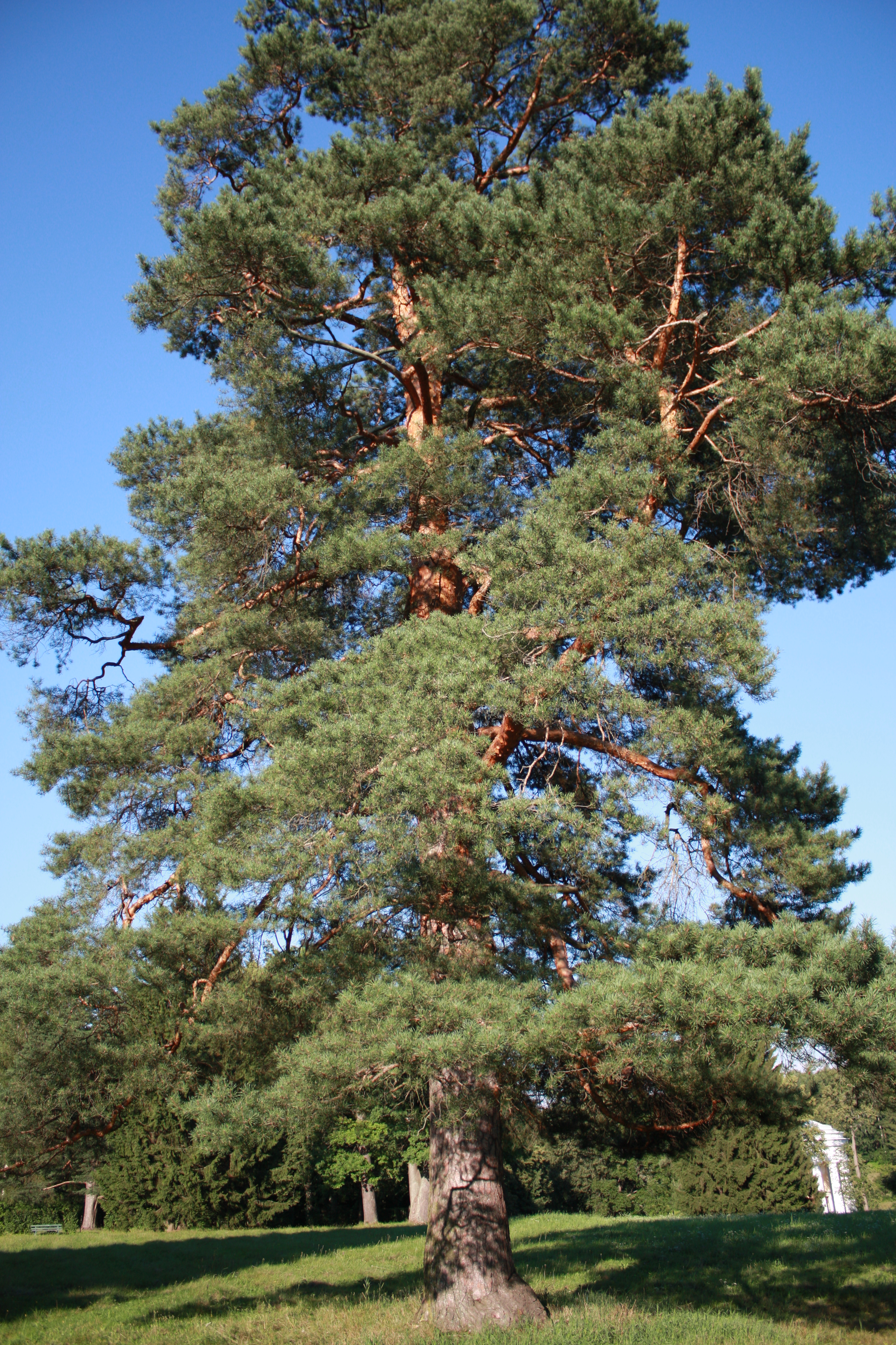 Pine in the Leningrad region, Russia.